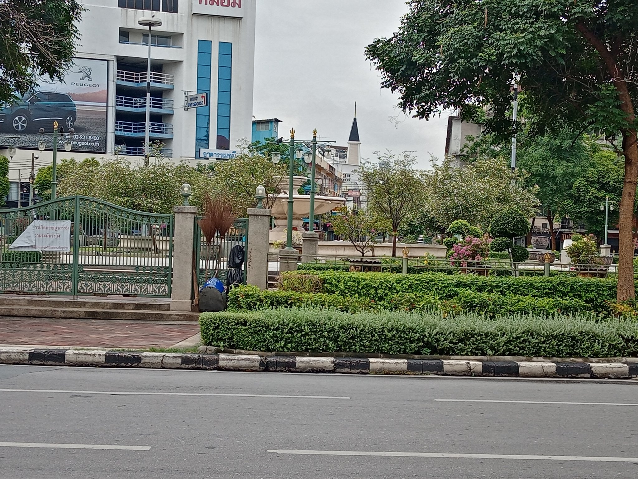 22 July Circle, World War I memorial, Pom Prap Sattru Phai District